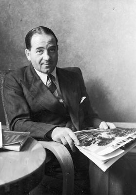 Alex James - Scottish footballer (1901-1953)